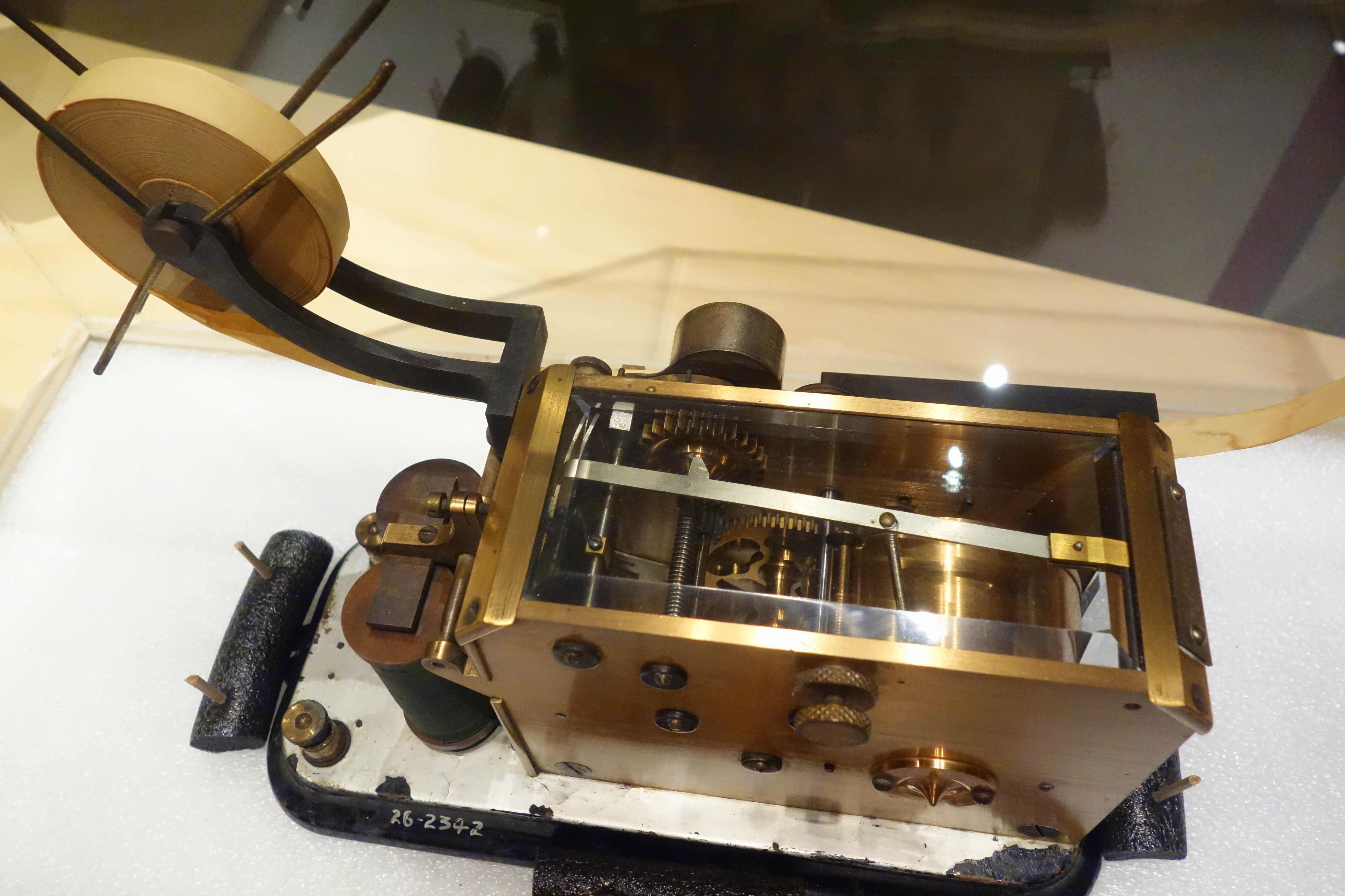 Exhibit in the Oakland Museum of California, Oakland, California, USA. This work is in the public domain because its maker died more than 70 years ago.